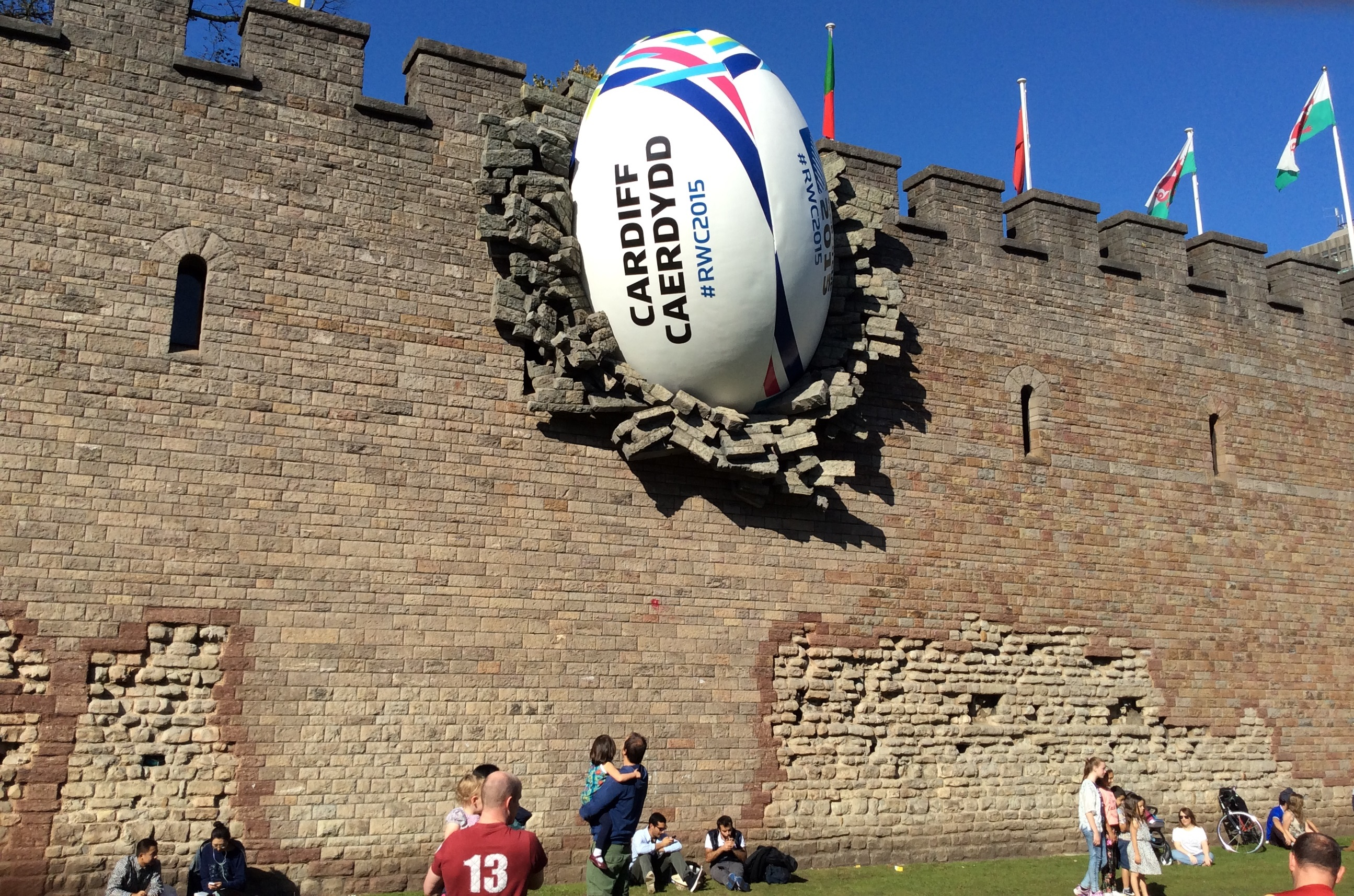 Promotional mock giant rugby ball at Cardiff Castle as part of the Millennium Stadiums role as one of the host venues of the competition.